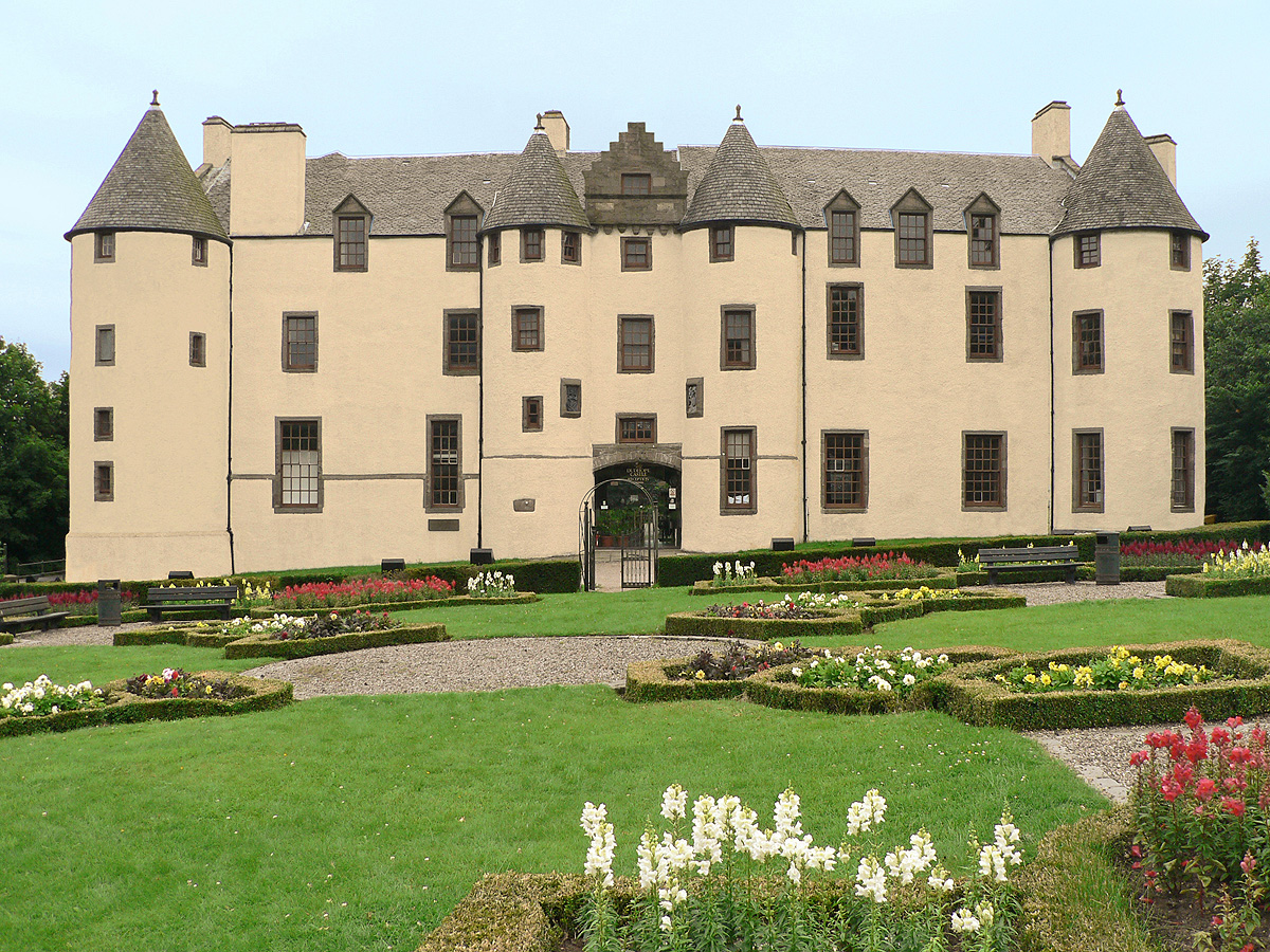 Dudhope Castle (Dundee, Kingdom of Scotland). Ideal restoration.